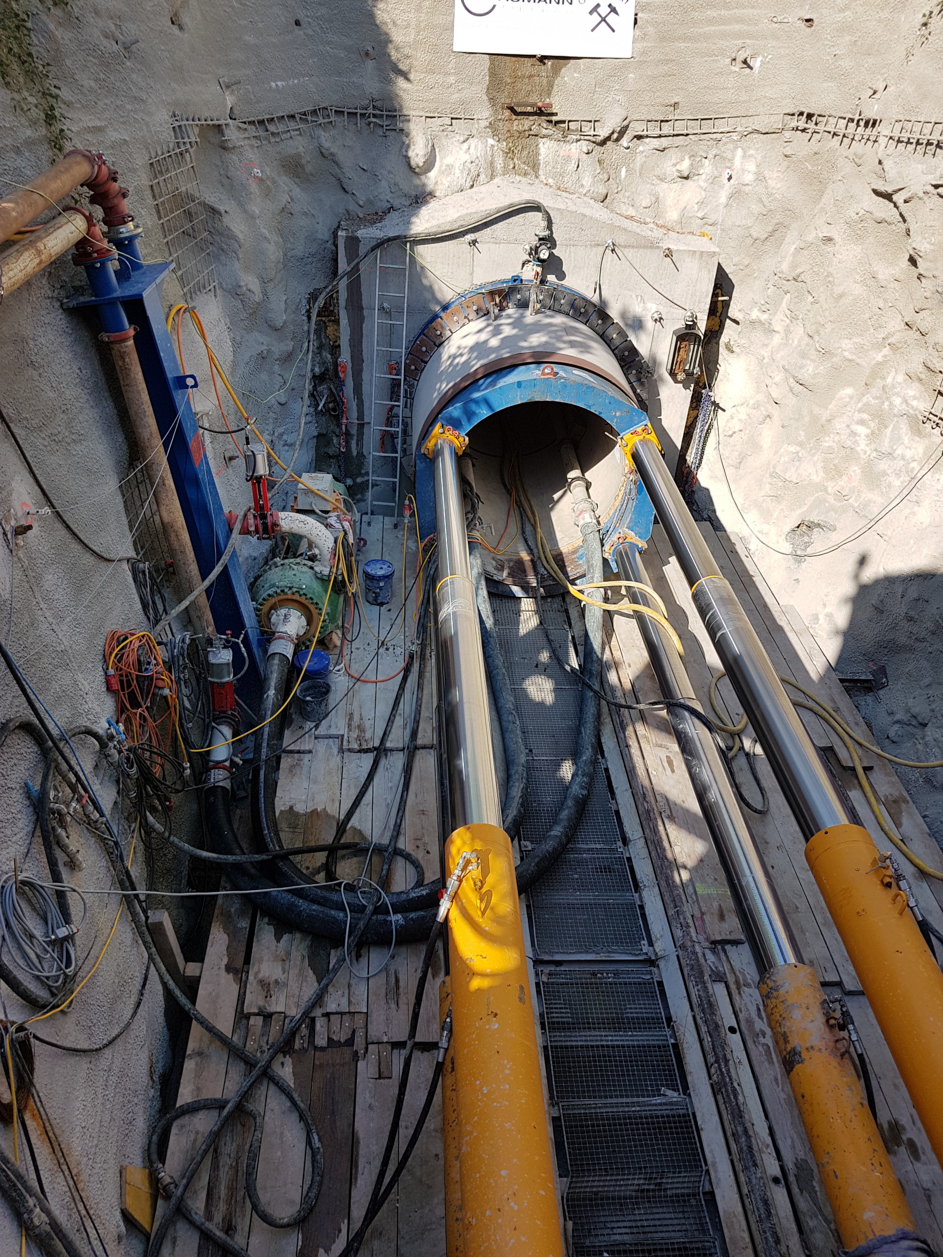 Construction area of the Zanzenbergtunnel (Zanzenberg is a hill) in Dornbirn, Vorarlberg, Austria. Hydraulic press to press in the concrete pipes in a microtunneling process.